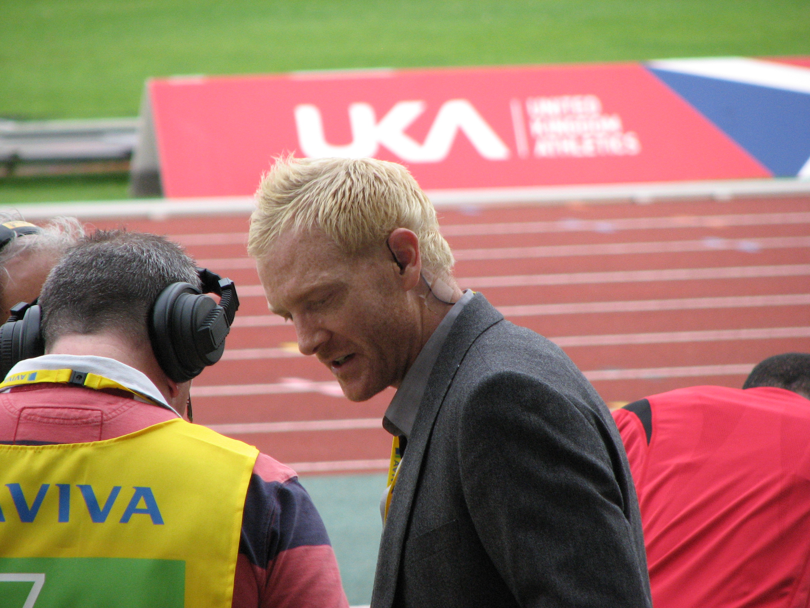 Iwan interviewed Chris Tomlinson and Greg Rutherford after the men's long jump. Aviva London Grand Prix, hosting the Diamond League, Crystal Palace, Friday 5 August 2011.